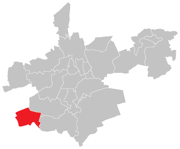 Location map of Olomouc district Nedvězí